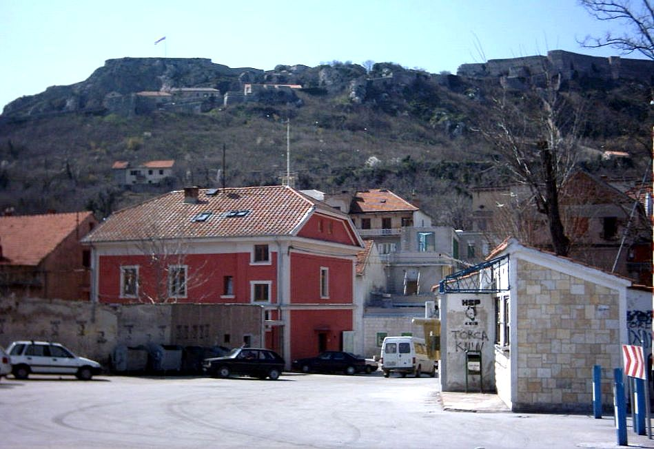 The fortress as seen from the city center of Knin, Croatia